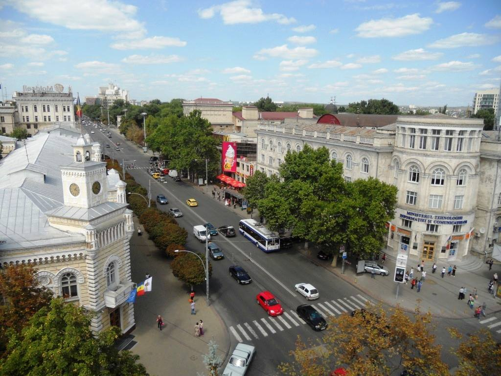 Ștefan cel Mare avenue in Chișinău, seen from the roof of Organ Hall. Town Hall (left) and Central Post Office (right) are pictured.